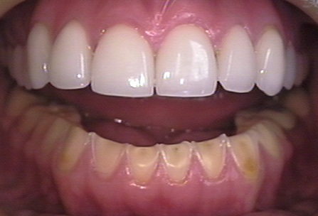 Oral Manifestation of Bulimia.